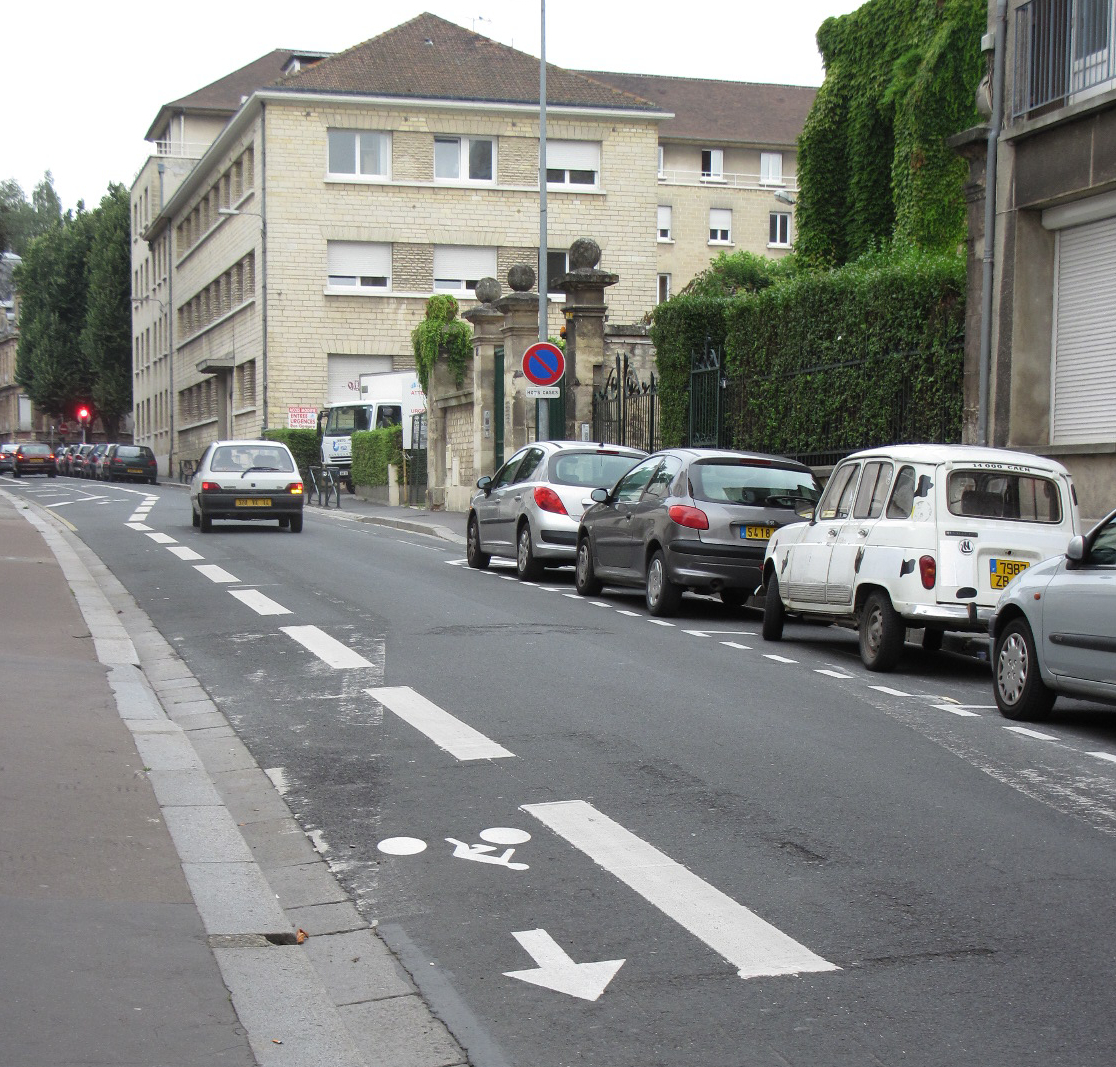 Cycling in Normandy August 2009